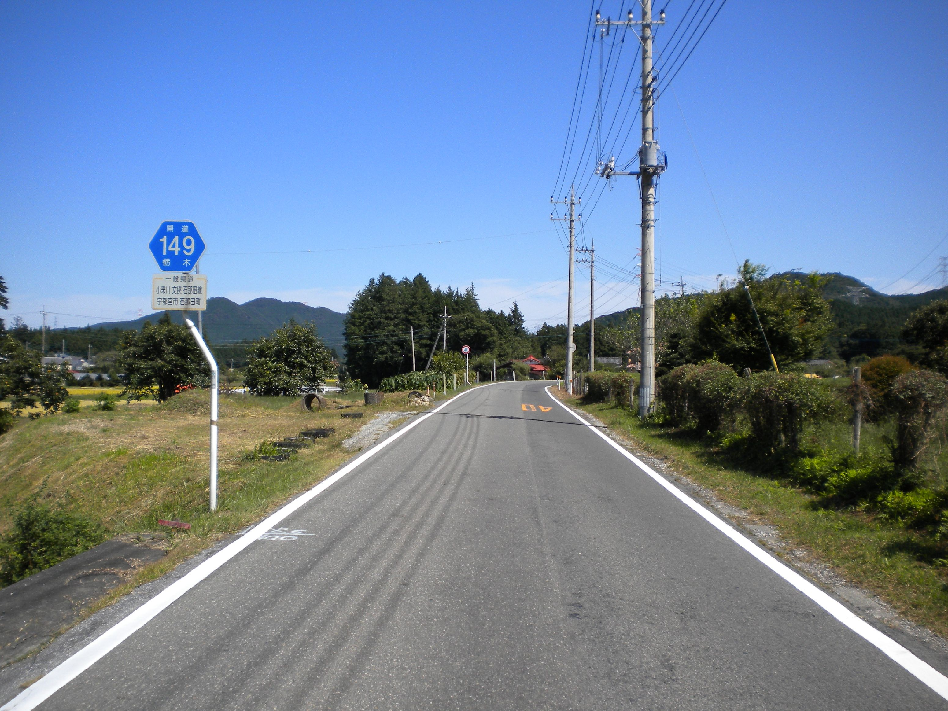 The Tochigi Prefectural Road Route 149 in Ishinadamachi, Utsunomiya City